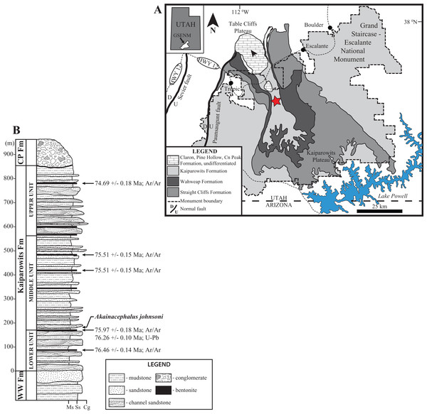 Map of Grand Staircase-Escalante National Monument (GSENM), southern Utah (A), and generalized stratigraphic section of the upper Campanian Kaiprowits Formation (B). The approximate stratigraphic position of Akainacephalus johnsoni is located near the base of the middle unit within the Kaiparowits Formation. The map highlights the GSENM boundary (dashed line), showing the geological distribution and outcrops of the Cretaceous Kaiparowits, Wahweap, and Straight Cliffs formations. The red star indicates the Horse Mountain area, from which Akainacephalus johnsoni was recorded. Map and stratigraphic column modified from Roberts (2005). Radioisotopic dates used from Roberts, Deino & Chan (2005) and Roberts et al. (2013), respectively.